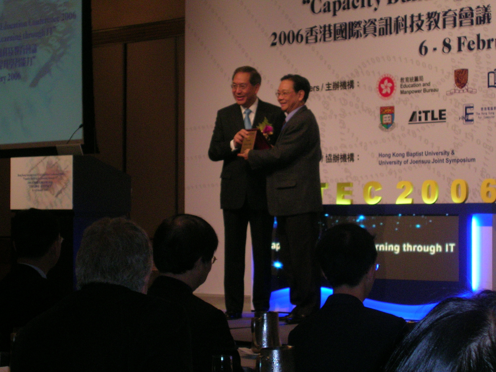 en: Photo of Prof Arthur Li and Prof Li Kedong Shot by Tomchiukc at 6 February, 2006 Shot at the Hong Kong International IT in Educational Conference 2006 zh: 李國章教授及李克東教授合照 由Tomchiukc於2006年2月6日拍攝 攝於2006年香港國際資訊科技教育會議